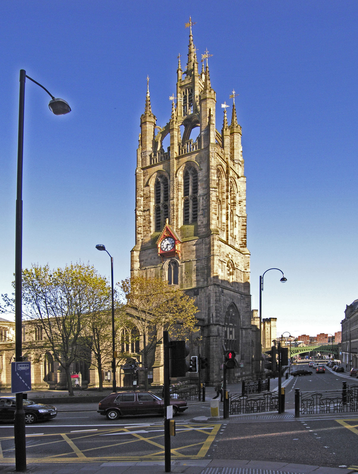 St. Nicholas Kathedrale